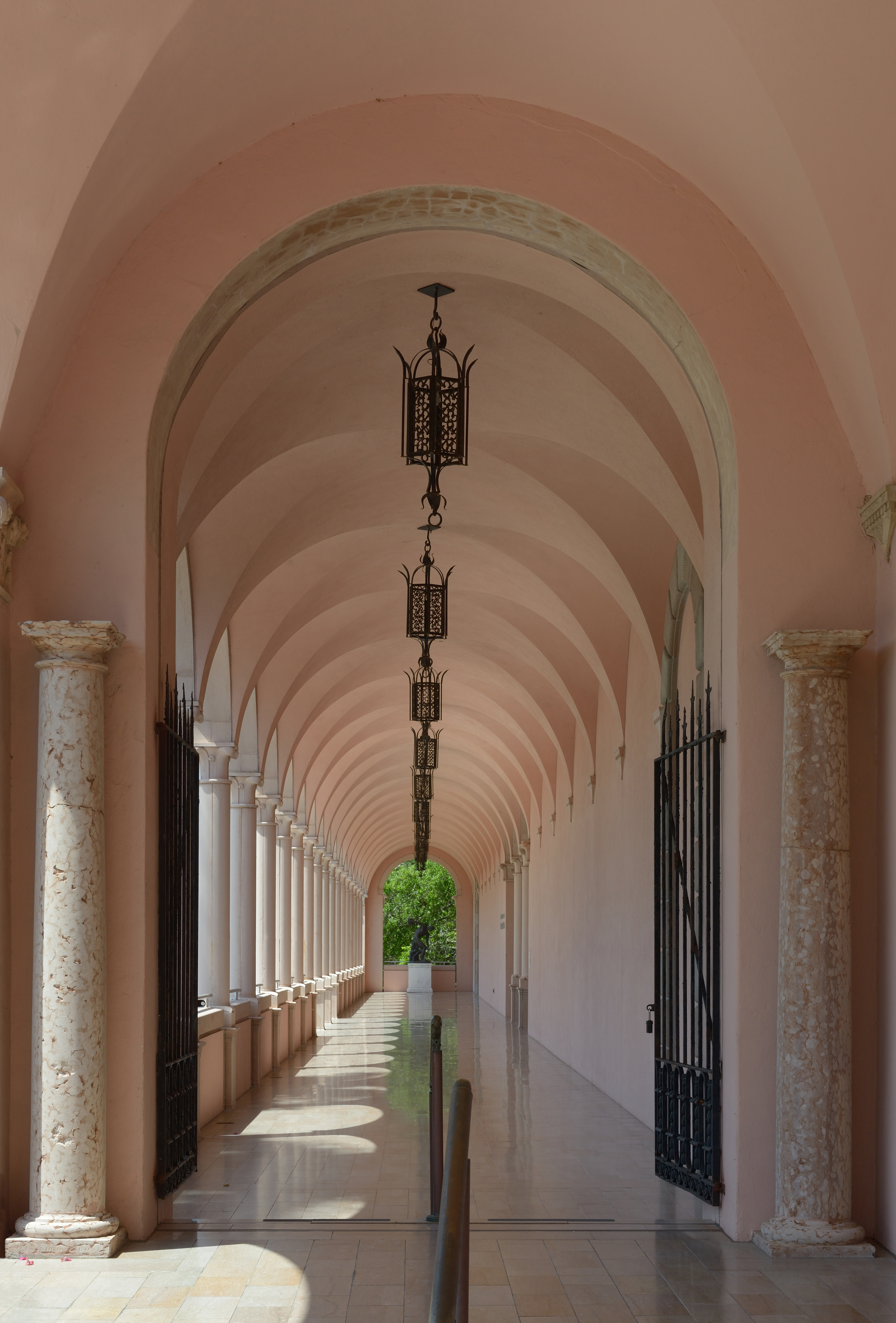 Arcade in the John and Mable Ringling Museum of Art in Sarasota in Florida.